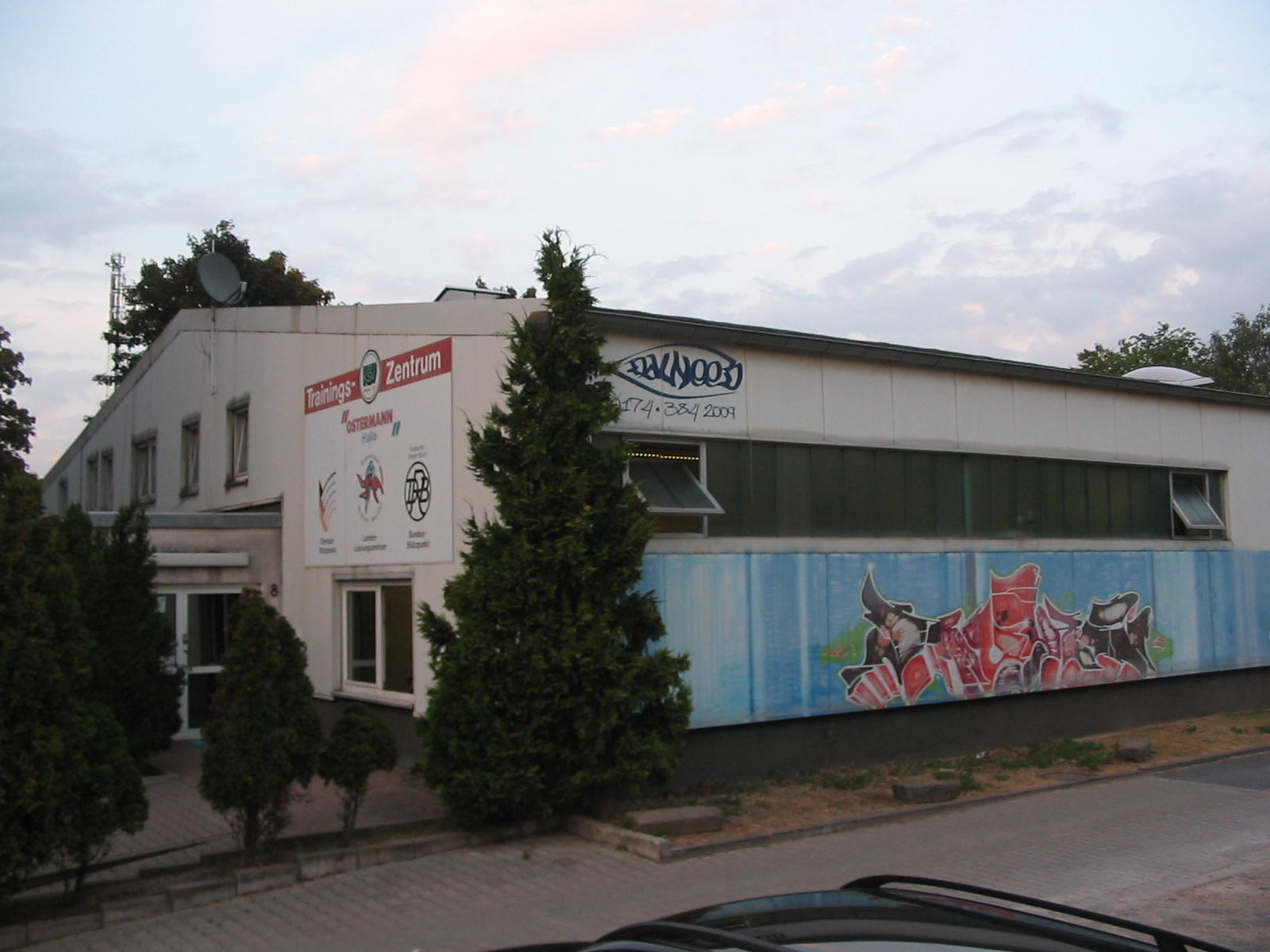 Gym Ostermannhalle in Witten, Germany